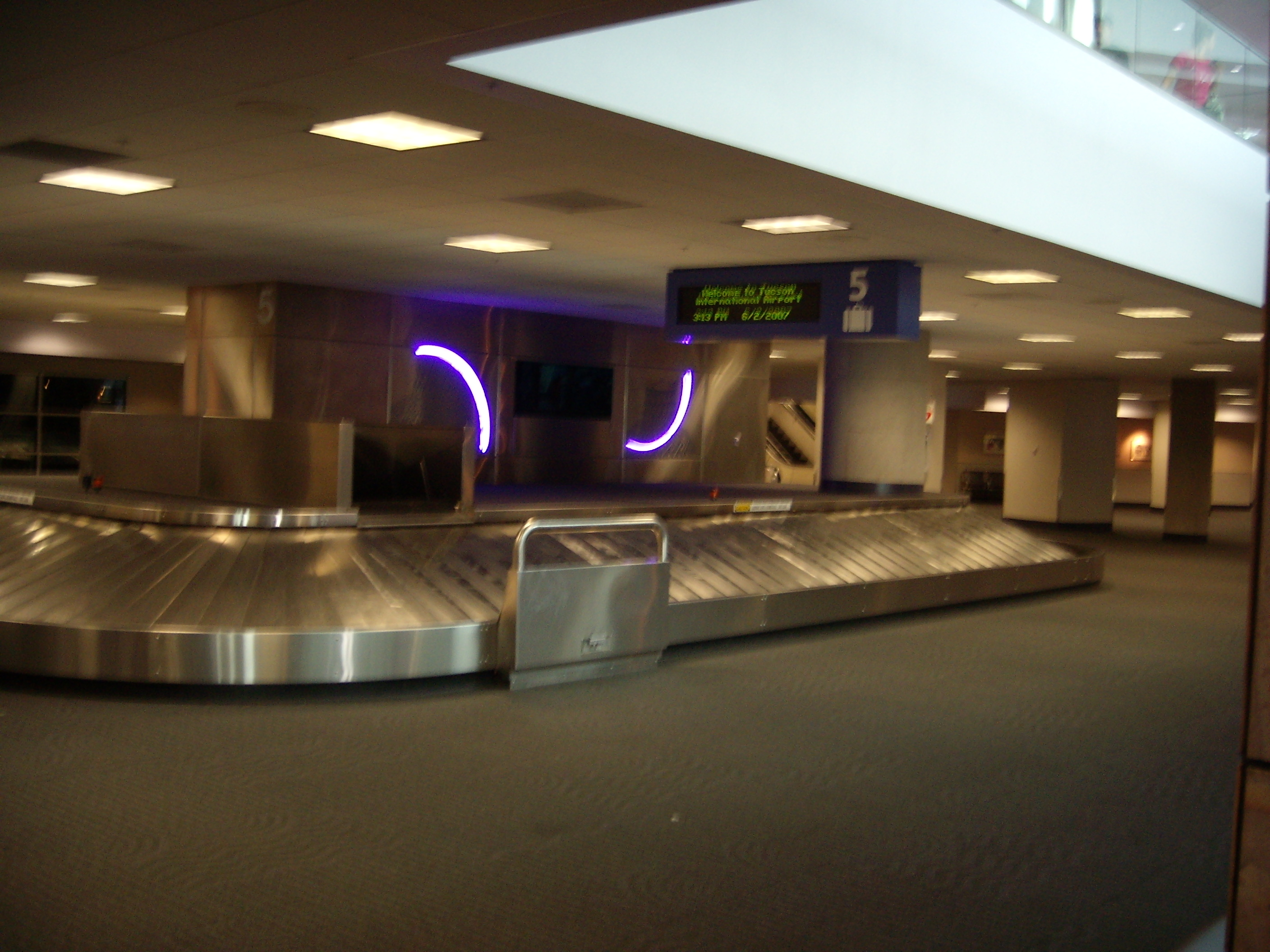 Baggage Claim 5 at Tucson International Airport. This baggage claim is used solely by the airport's biggest carrier, Southwest Airlines.